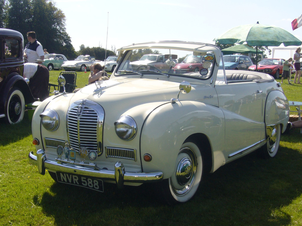 Austin Somerset convertible